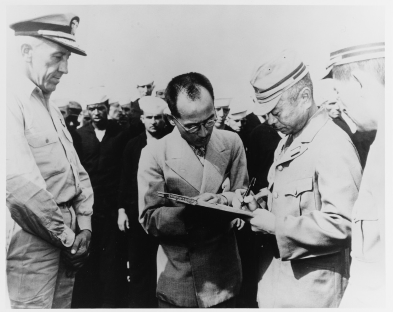 Rear Admiral T.G.W. Settle, USN (left), looks on while Vice Admiral Shigeji Kaneko, IJN, signs document of surrender turning over 12 Japanese ships to U.S. control: 6 DD and AM and 6 merchantmen. Ceremony took place on the forecastle of USS HERNDON (DD-638) at Tsingtao, China, 16 September 1945.